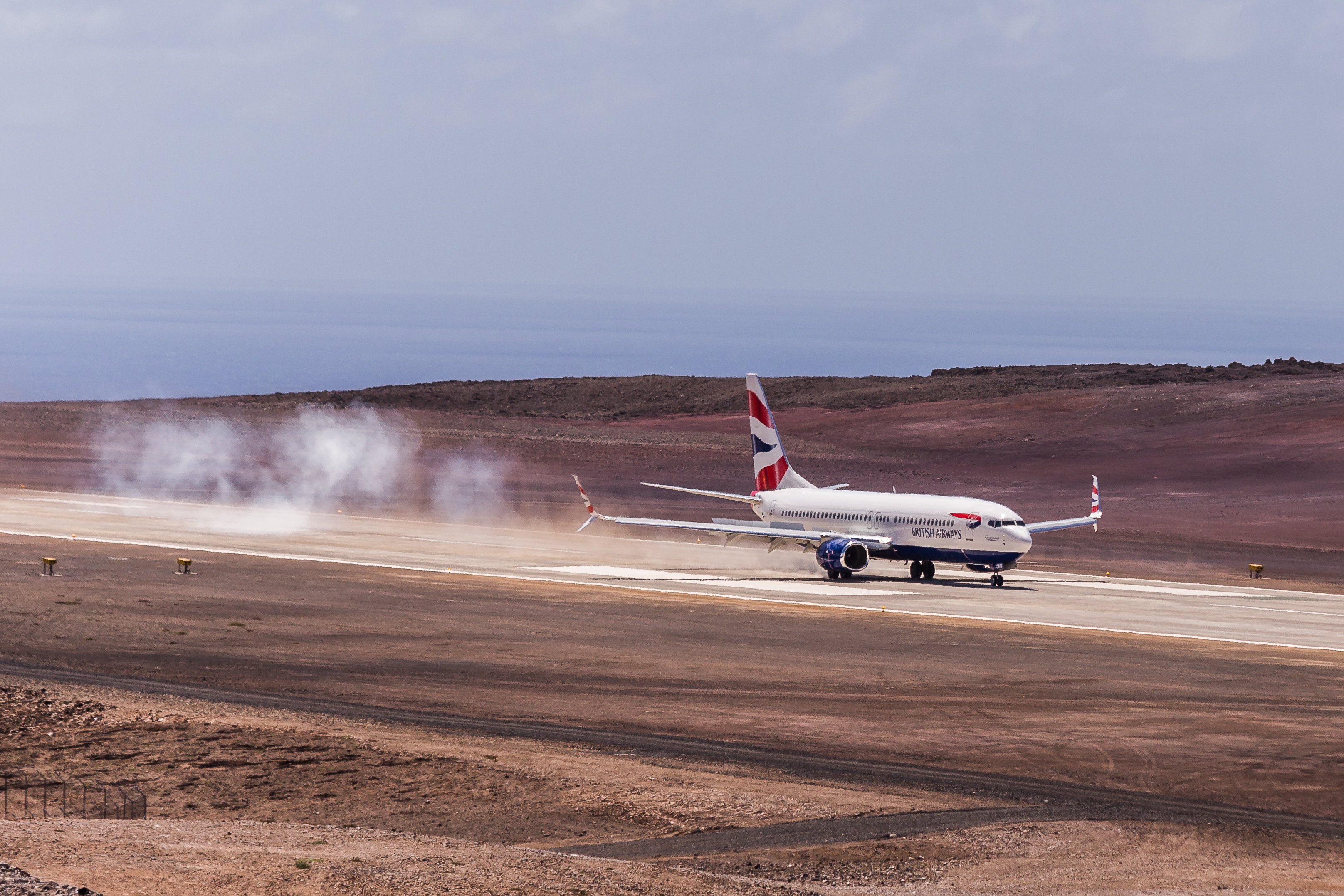 First Comair Boeing 737-800 flight to Saint Helena Airport